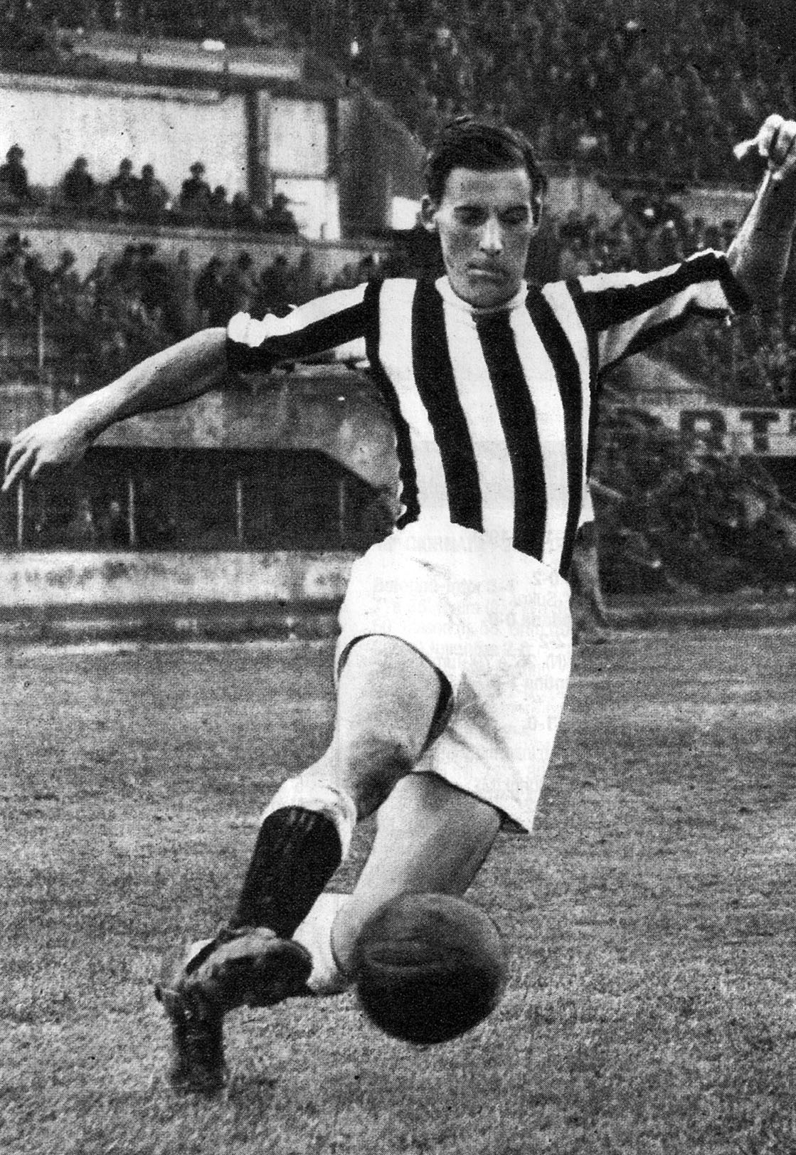 Danish footballer Karl Aage Præst in action with Juventus F.C. in the 1951–52 season.